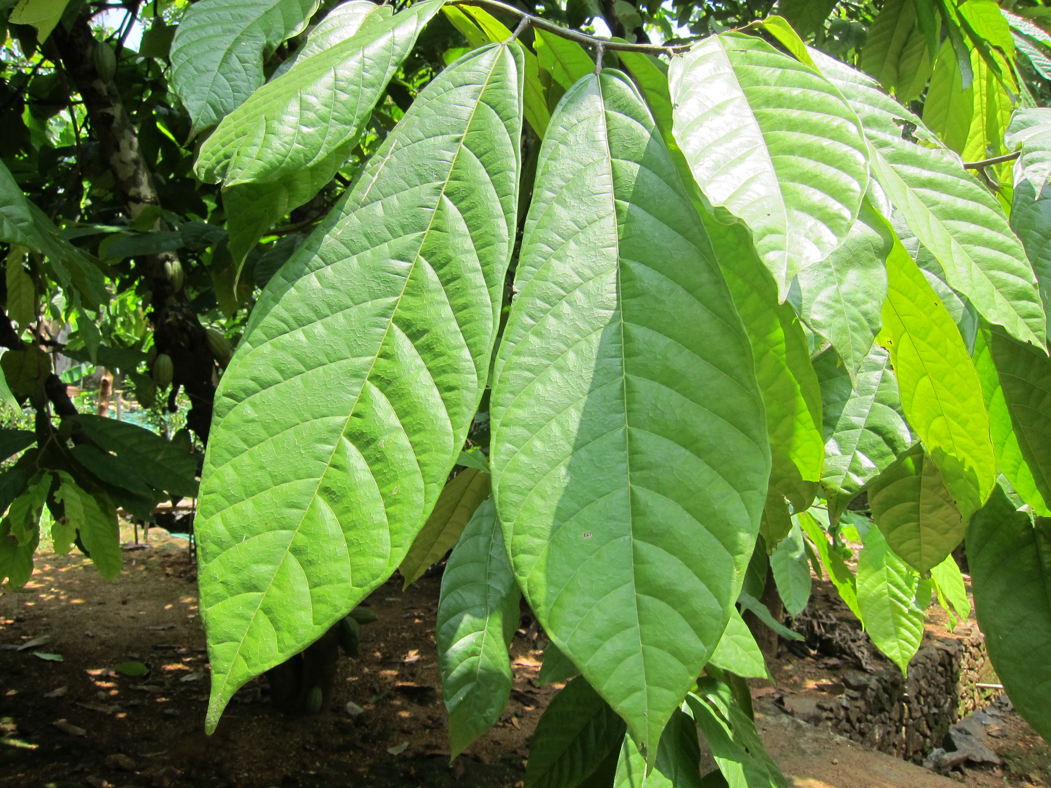 Coco Leaves